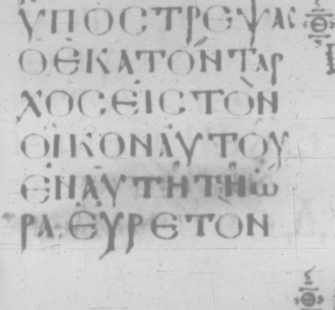 Codex Nanianus, additional reading in Matthew 8:13